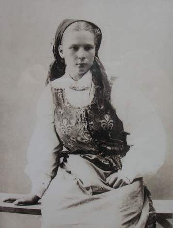 Belorussian girl from Vialava village (near Volozhyn town, Belarus) - foto by Benedykt Tyszkiewicz, 1898 AD